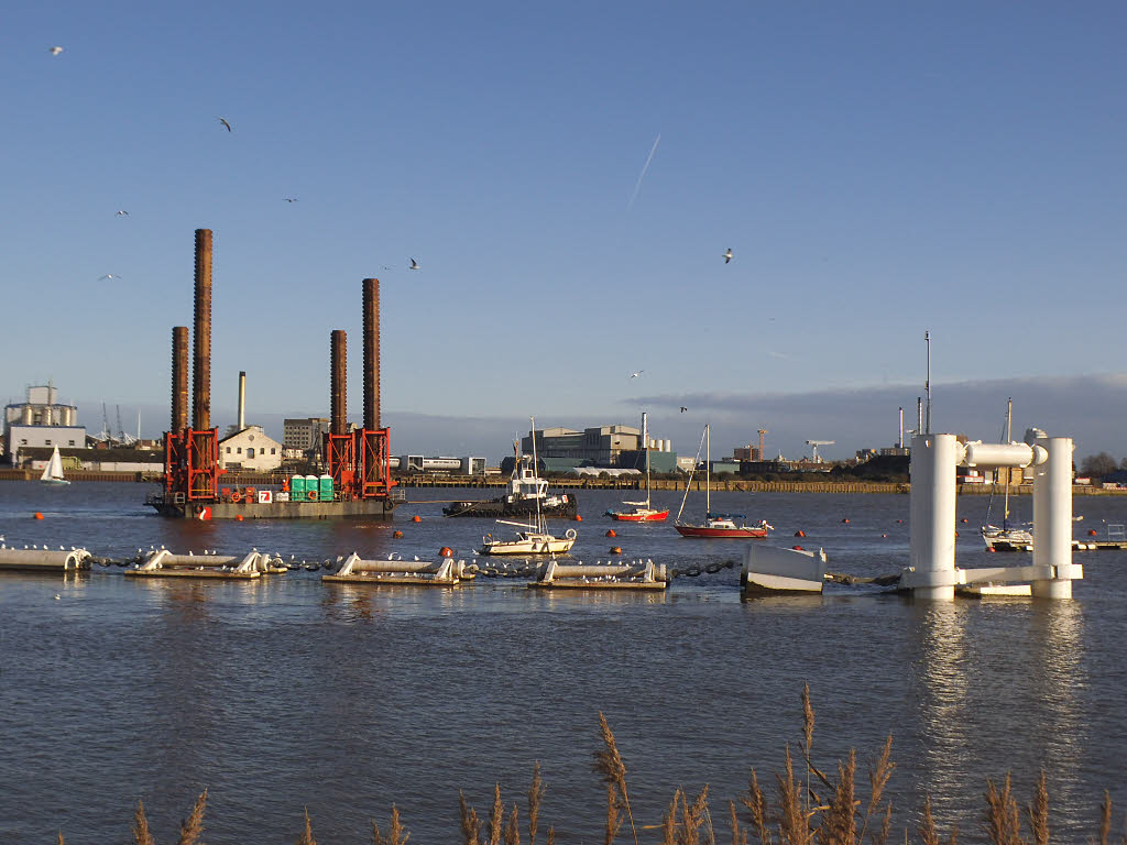 Silvertown Tunnel boreholes (1)